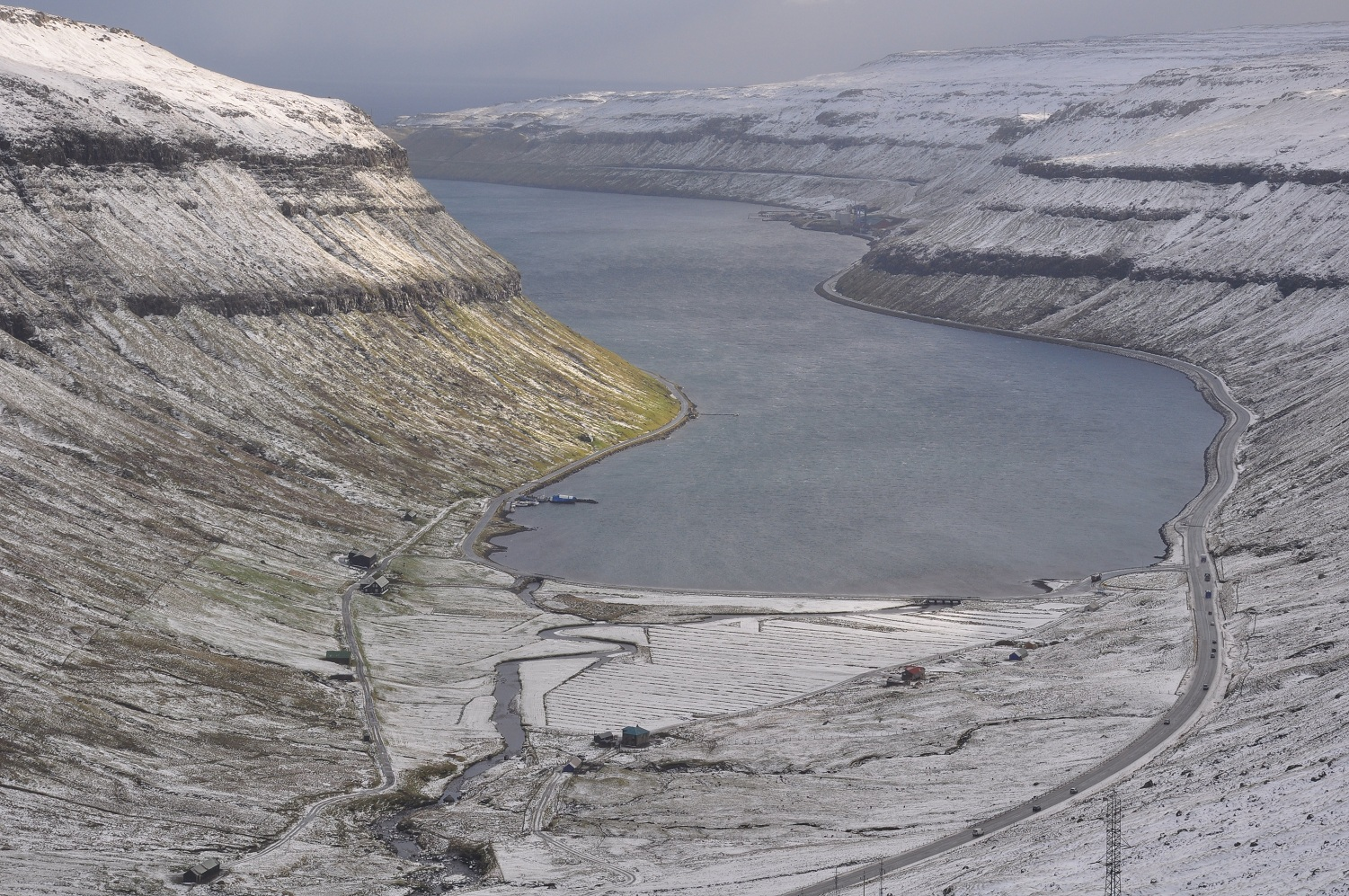 Faroe Islands, Streymoy, mouth of the Fjarđará river into Kaldbaksfjørđur at the hamlet of Kaldbaksbotnur in October. On the right the main road into Torshavn.